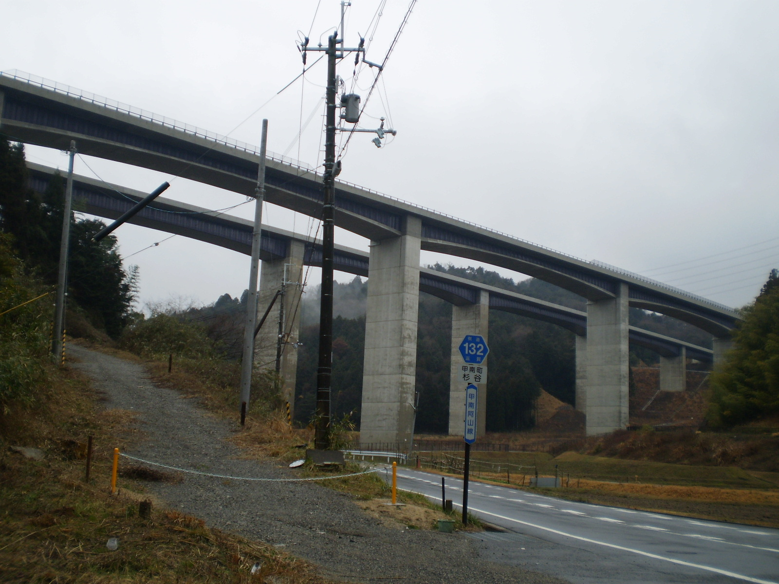 Sugitanigawa bridge of Shin-Meishin Expressway I took this image at Sugitani Konan-cho Koka City Shiga Pref., Japan